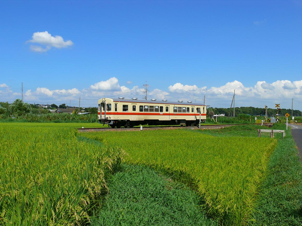 Kanto Railway Ryugasaki Line.